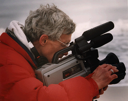 Reporter and film maker Richard Kotuk with a video camera.